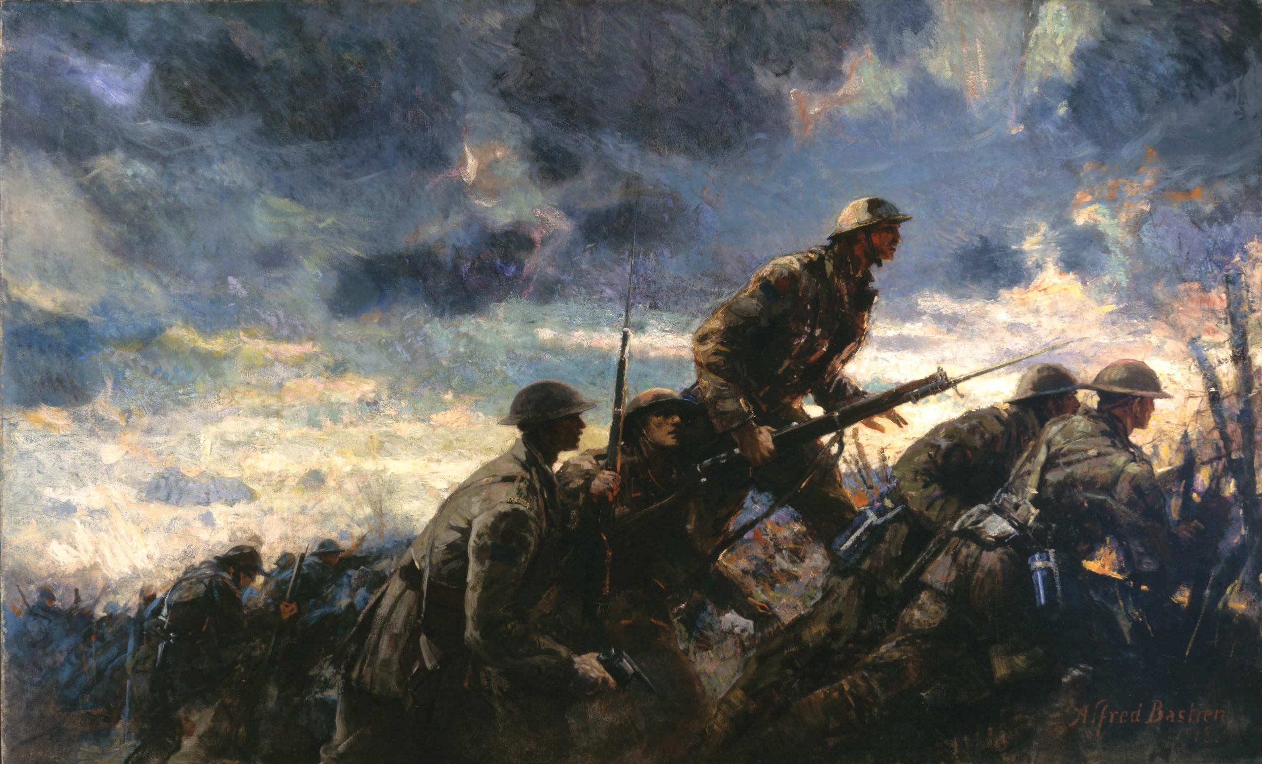 Alfred Bastien served in the Belgian Army from 1915. Designated an official artist in 1916, he was placed at the disposal of the Canadian War Records Office in October 1917 and assigned to paint for the Canadian War Memorials Fund. Most of his time was spent with the French-speaking 22nd Battalion, Canadian Expeditionary Force, one result of which was Over the Top, Neuville-Vitasse. Neuville-Vitasse, located just south of Arras, was the site of heavy fighting in 1918.